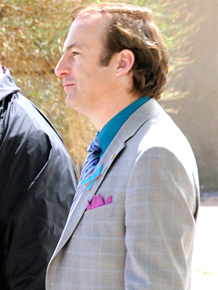 Lavell Crawford and Bob Odenkirk on Breaking Bad film set for season 4.